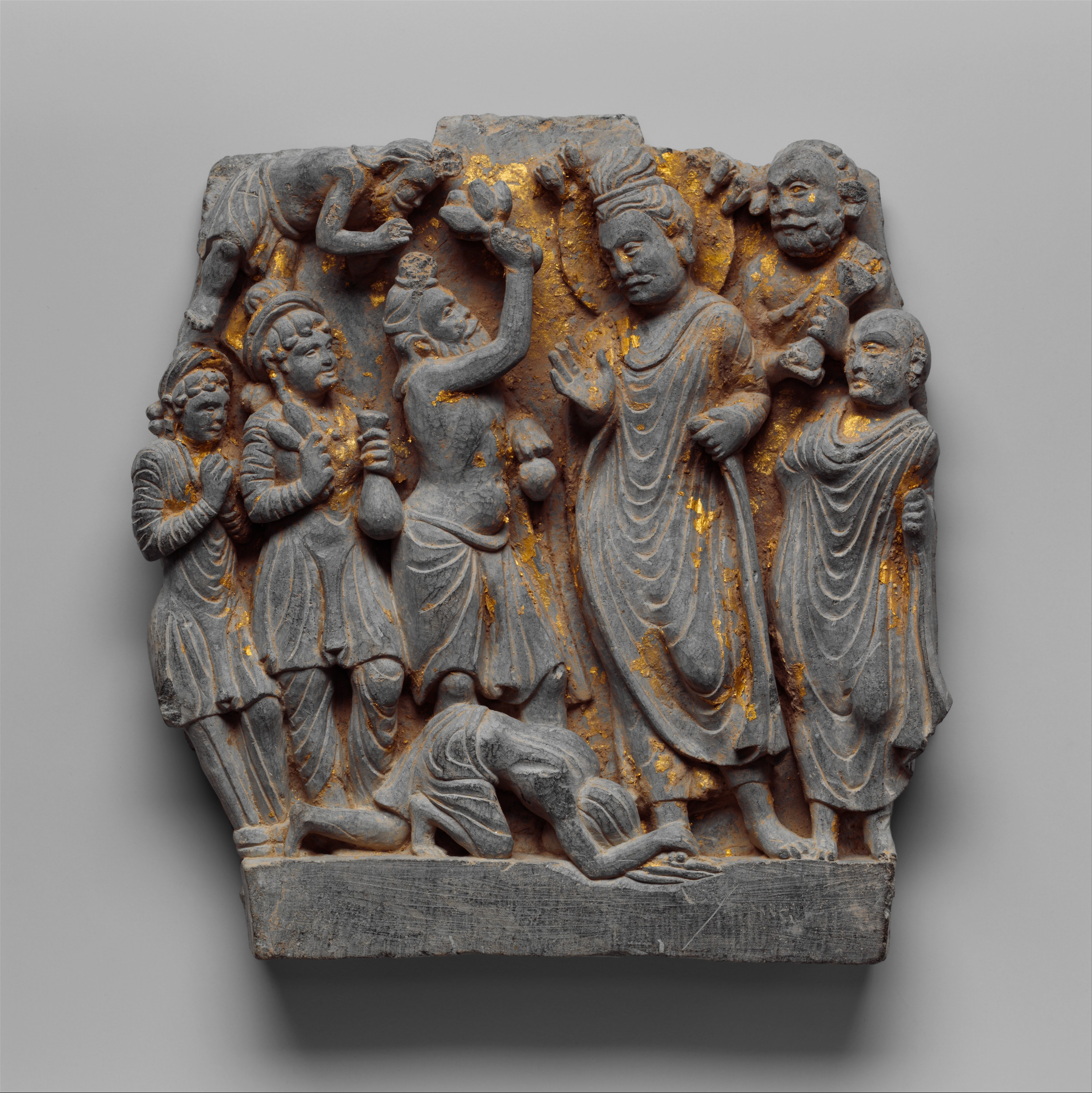 Url: Date:ca. 2nd century Culture:Pakistan (ancient region of Gandhara, Swat Valley) Medium:Schist with gold leaf Dimensions:H. 8 3/4 in. (22.2 cm); W. 8 3/8 in. (21.3 cm); D. 1 1/2 in. (3.8 cm) Classification:Sculpture Credit Line:Gift of Mr. and Mrs. Alan D. Wolfe, in memory of Samuel Eilenberg, 1998 In this panel the ascetic Megha (the Buddha Shakyamuni in a past life) appears three times: first, standing before the Buddha Dipankara throwing flowers; second, prostrate before the Buddha spreading his matted locks over mud; and third, flying in the upper left of the panel in a gesture of veneration. This story is the critical beginning of the Gandharan narrative cycle, as the Buddha Dipankara predicts that in a future life Megha will reach enlightenment and become the Buddha Shakyamuni.